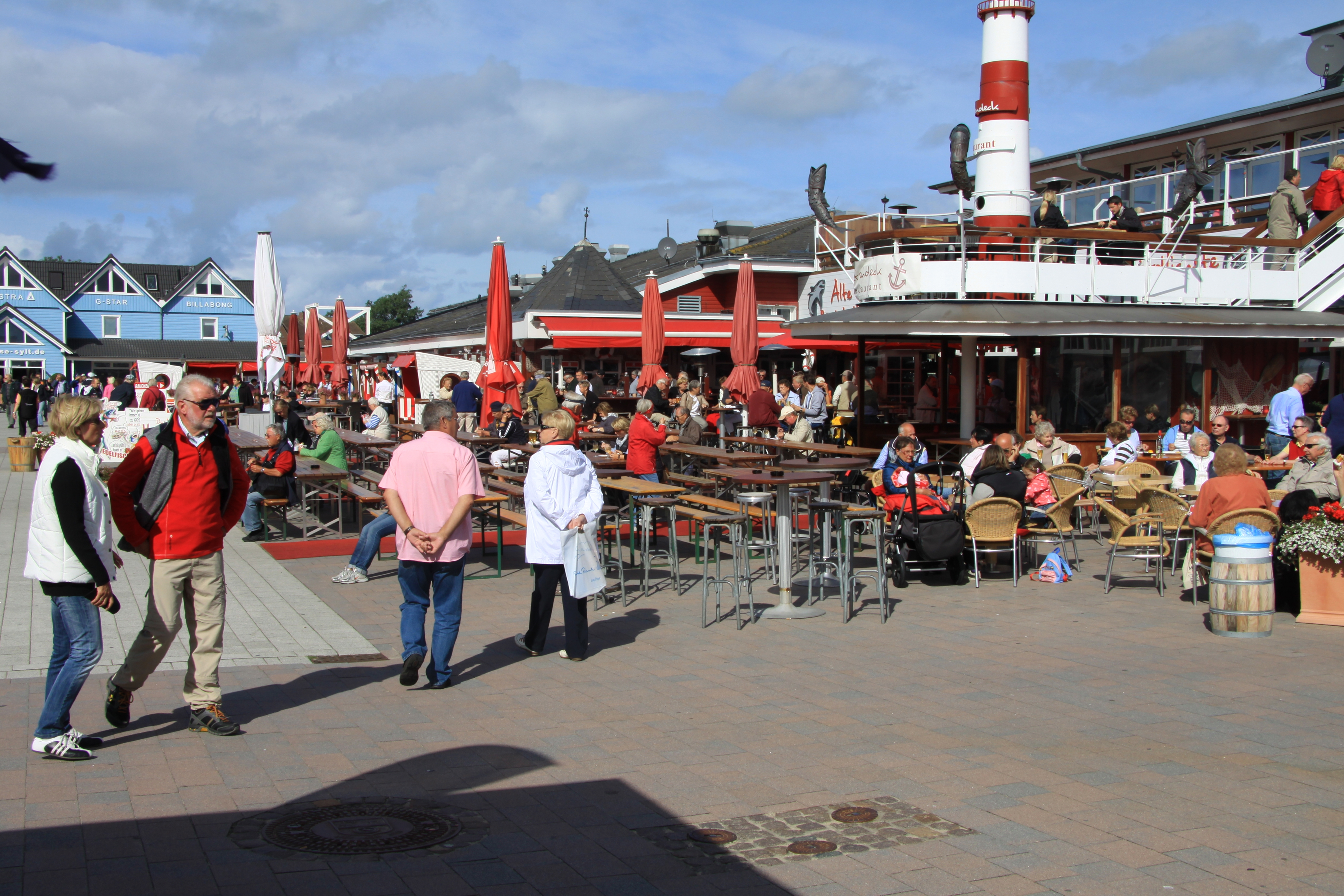 Harbour area of List (Sylt) showing the variety of fish restaurants